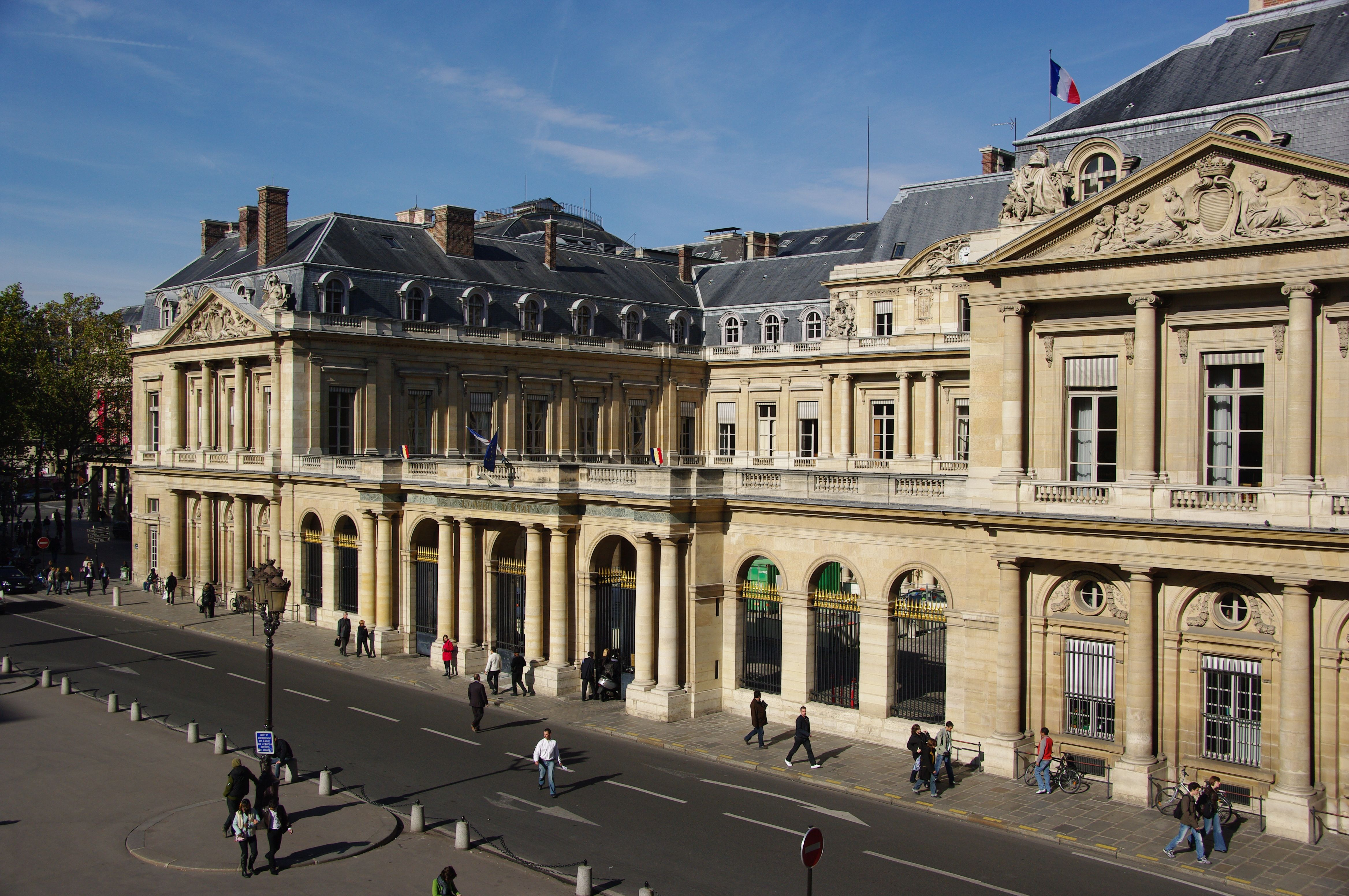 Entrance of the French Council of State (Conseil d'Etat), Paris.